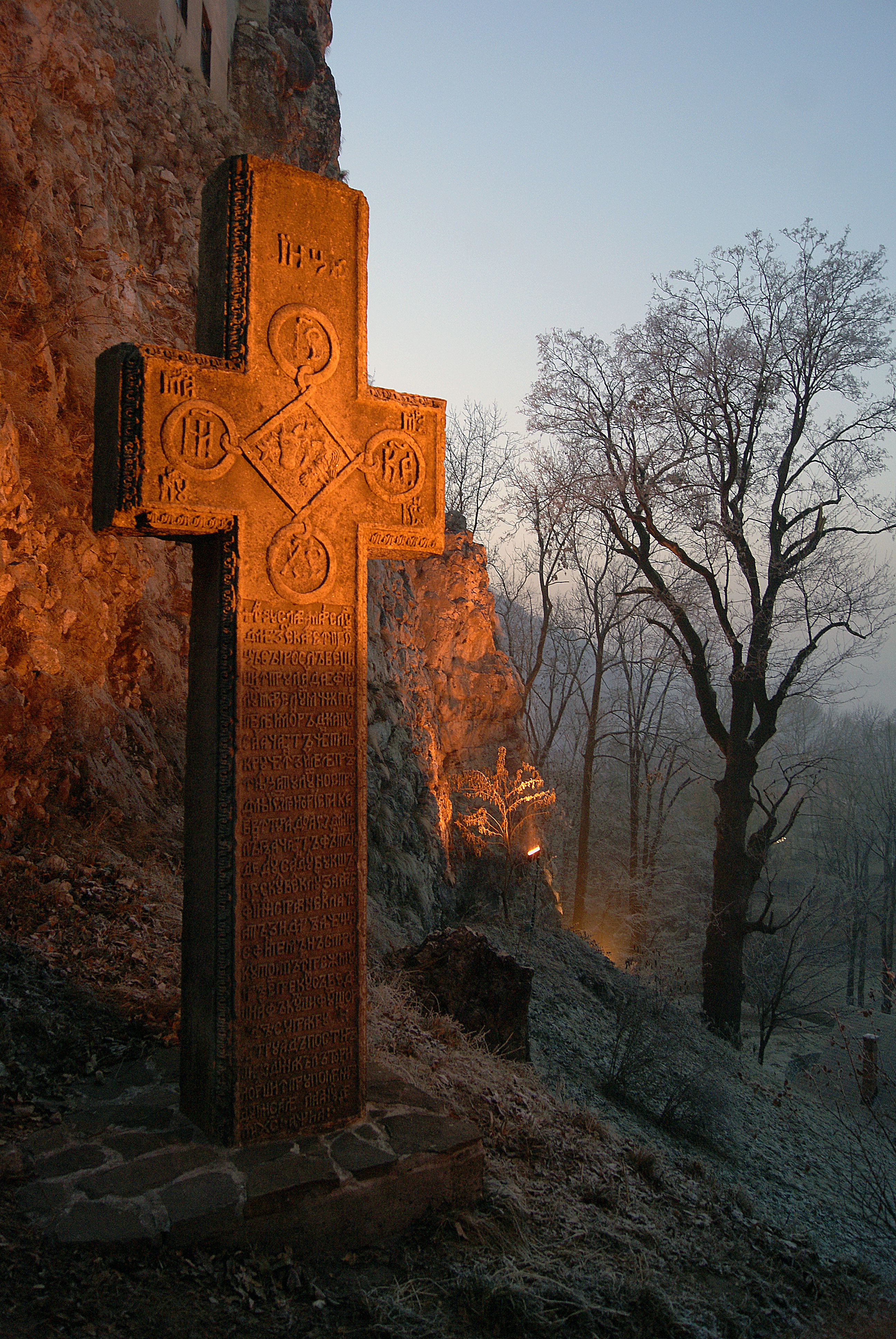 Cross near the Bran castle